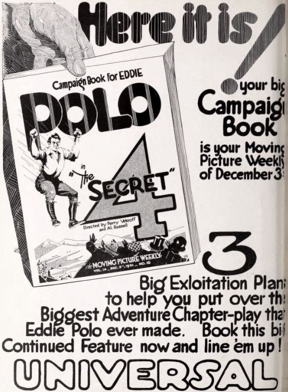 Advertisement for the American film serial The Secret Four (1921) with Eddie Polo, on page 2 of the December 10, 1921 Exhibitors Herald.